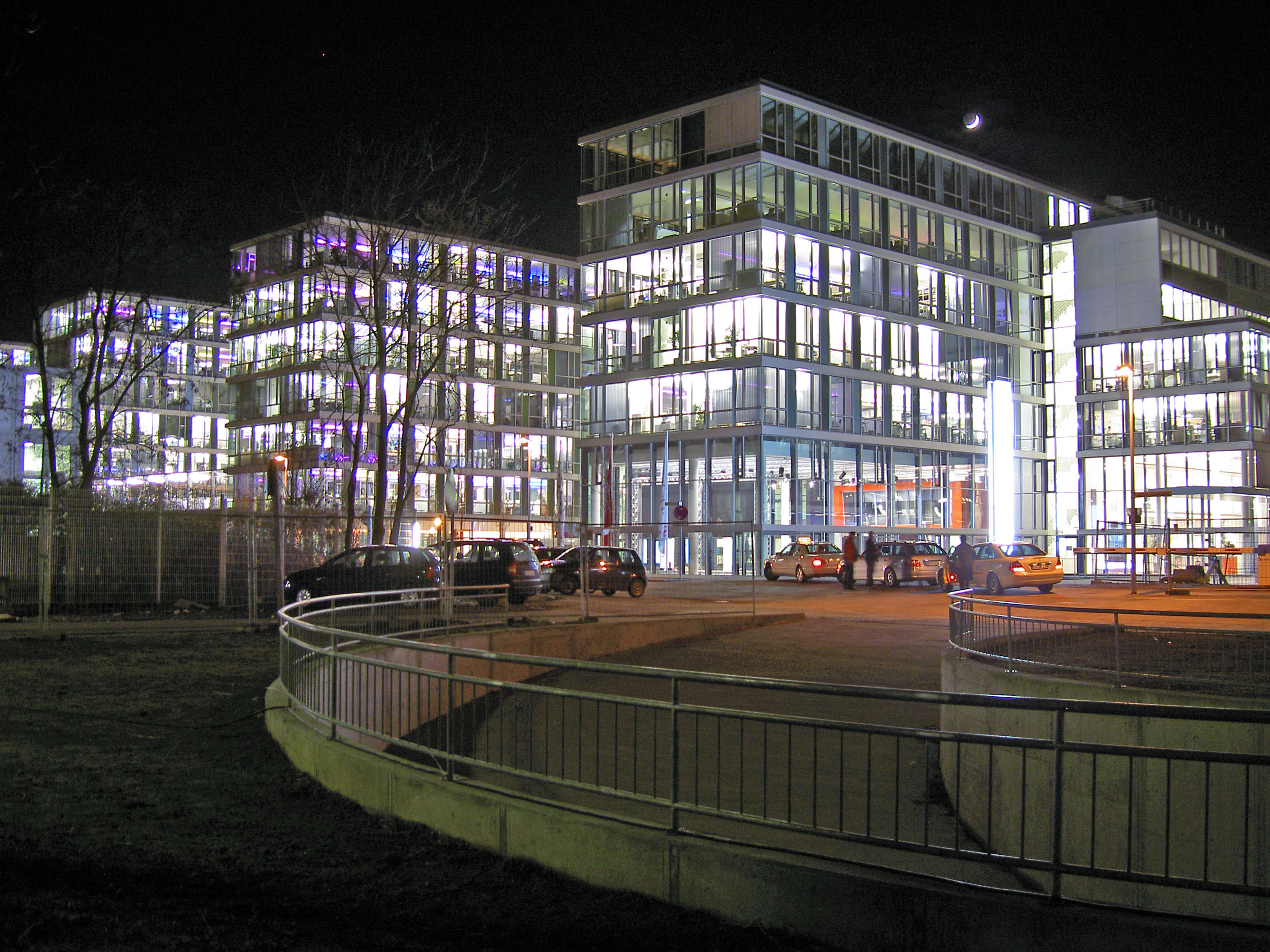 T-Online Headquarters, Darmstadt, Germany